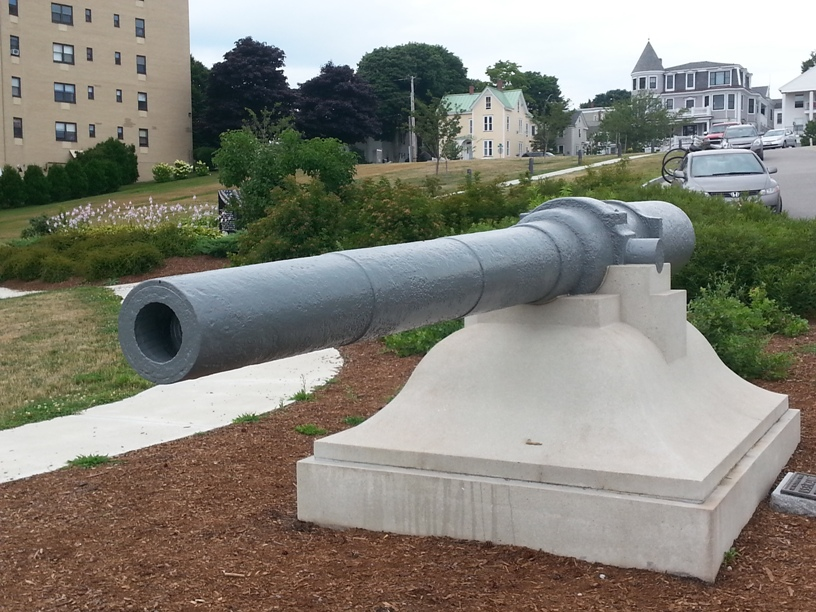 6"/30 caliber gun salvaged from USS Maine (ACR-1) in Fort Allen Park, Portland, Maine